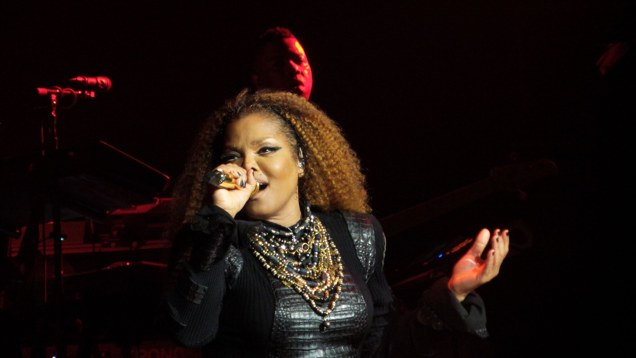 Janet Jackson Unbreakable Tour, Honolulu, Hawaii 2015